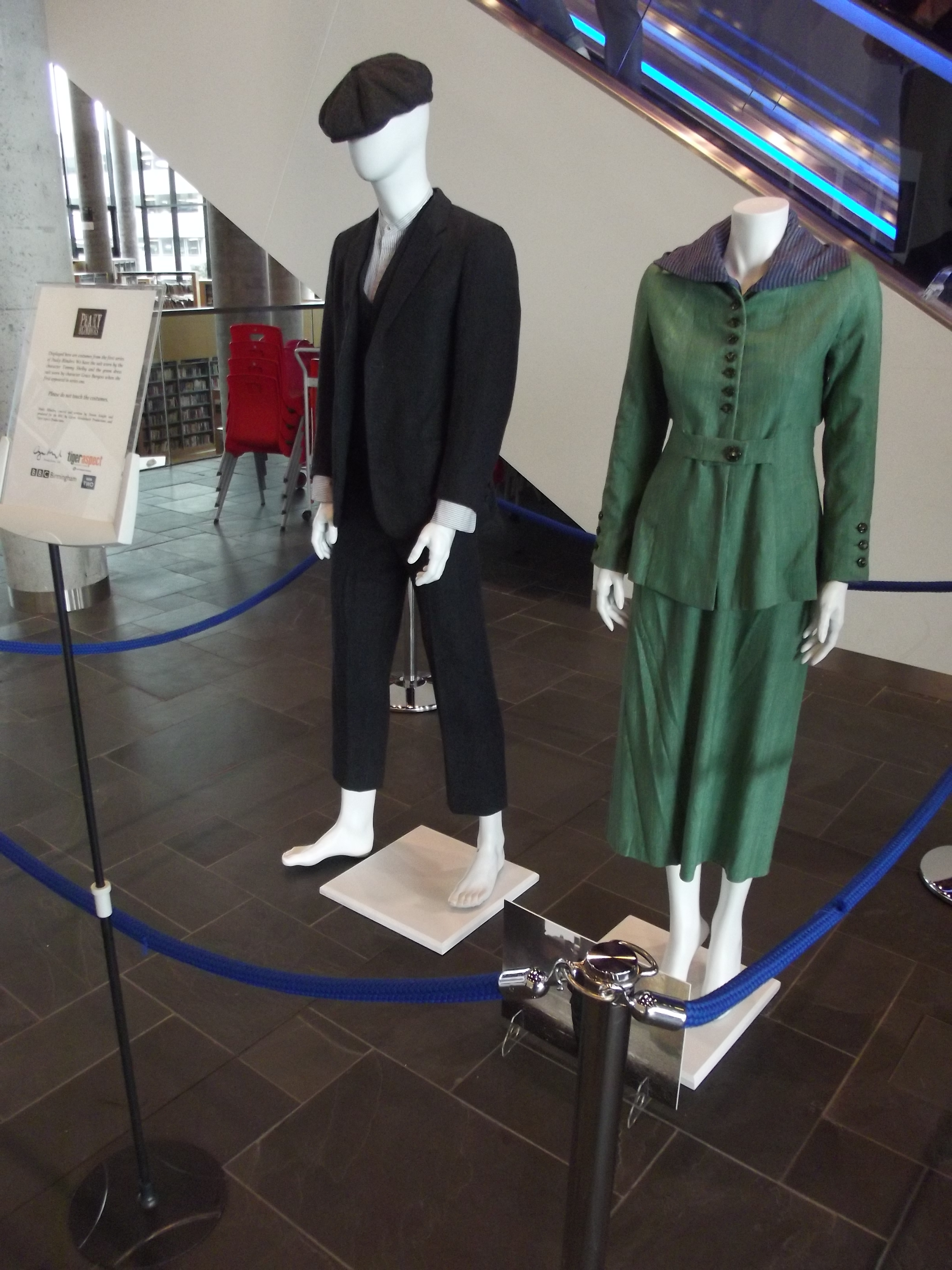 Costumes from Peaky Blinders series 1 at the Library of Birmingham. The costumes are of the characters Tommy Shelby and Grace Burgess